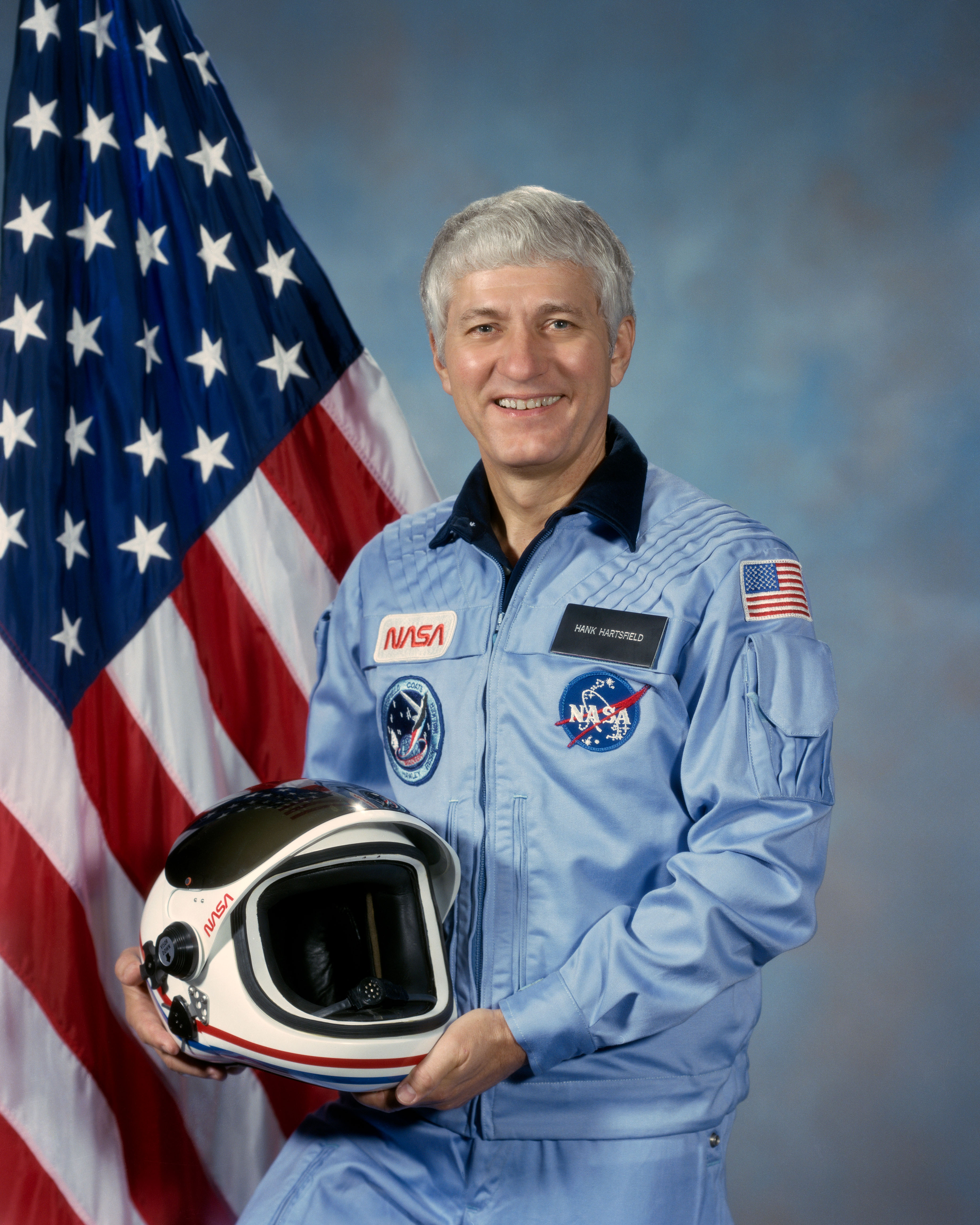 NASA Astronaut Henry Hartsfield